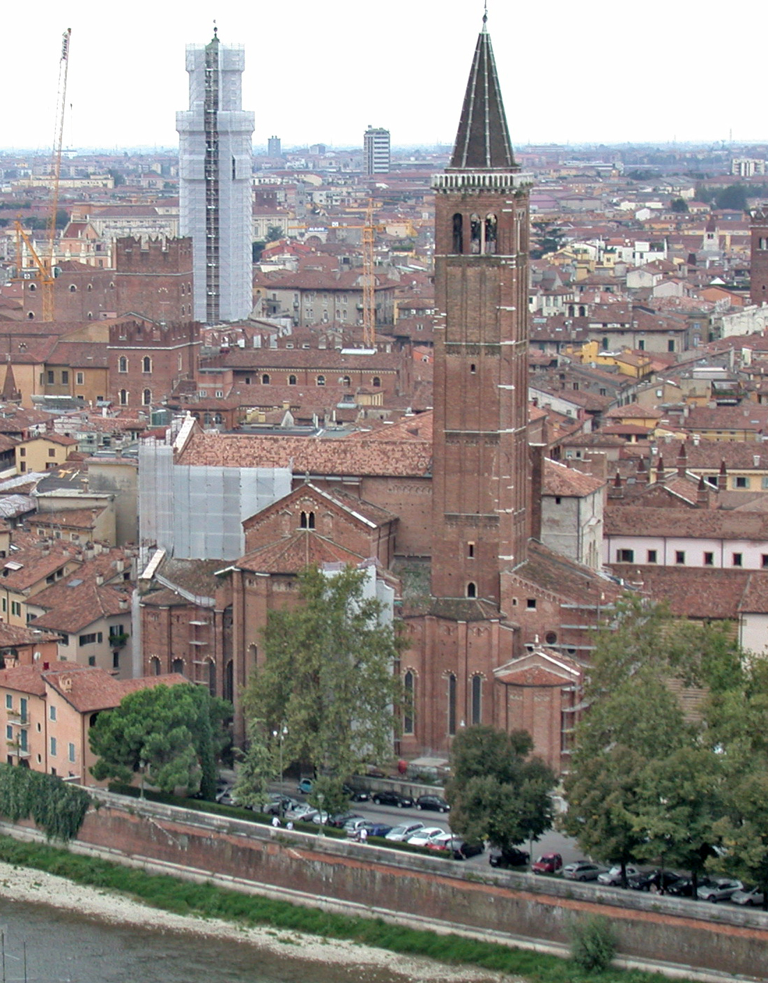 Verona, church of Santa Anastasia, view from Castel San Pietro